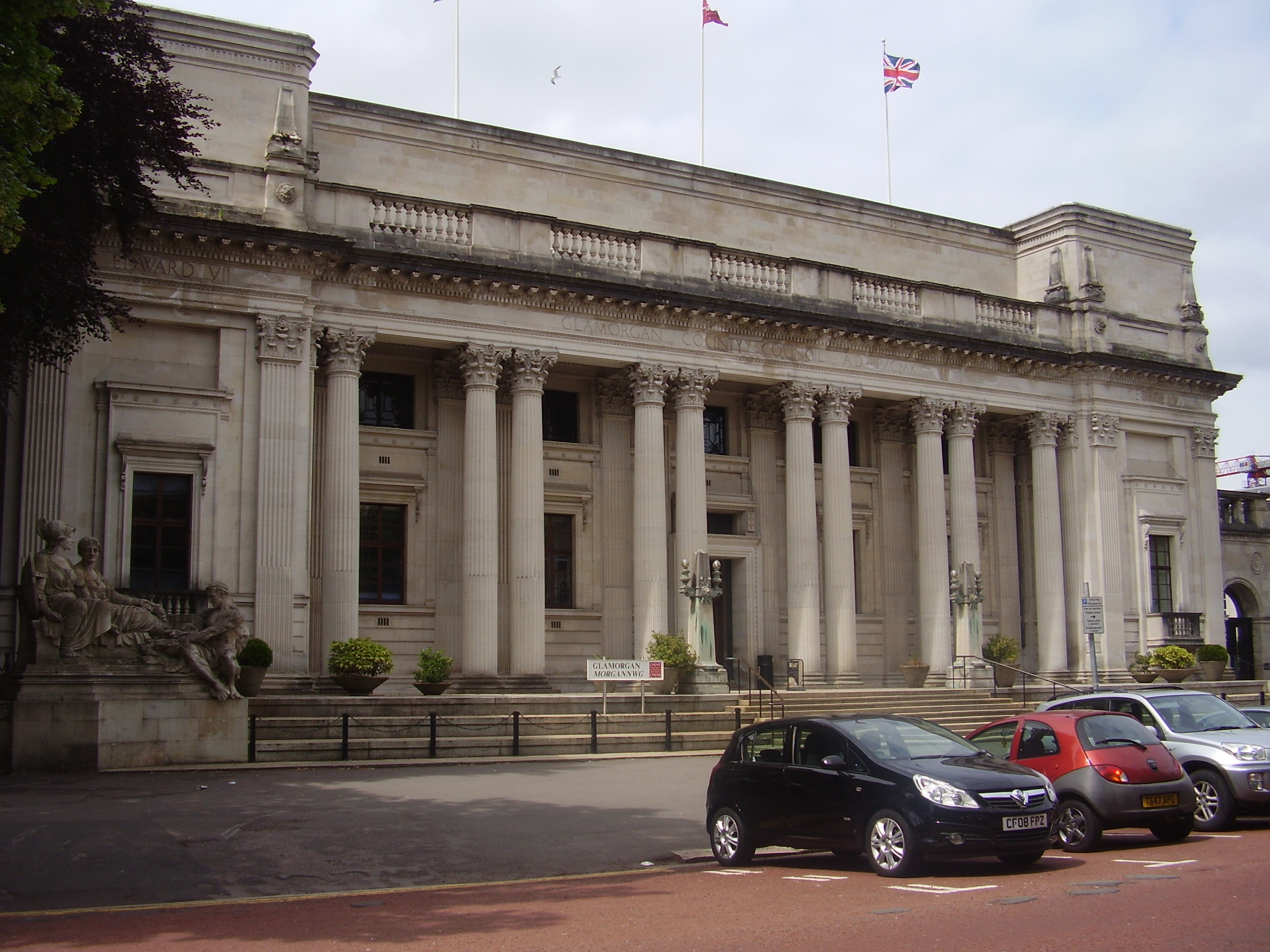 Glamorgan Building in Cathays Park, Cardiff